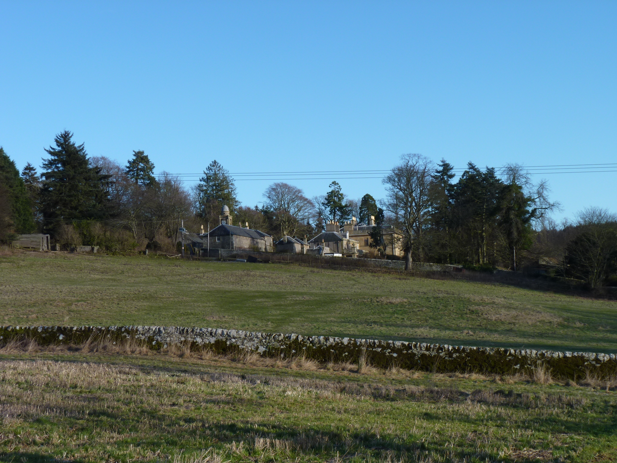 Cunnoquhie House